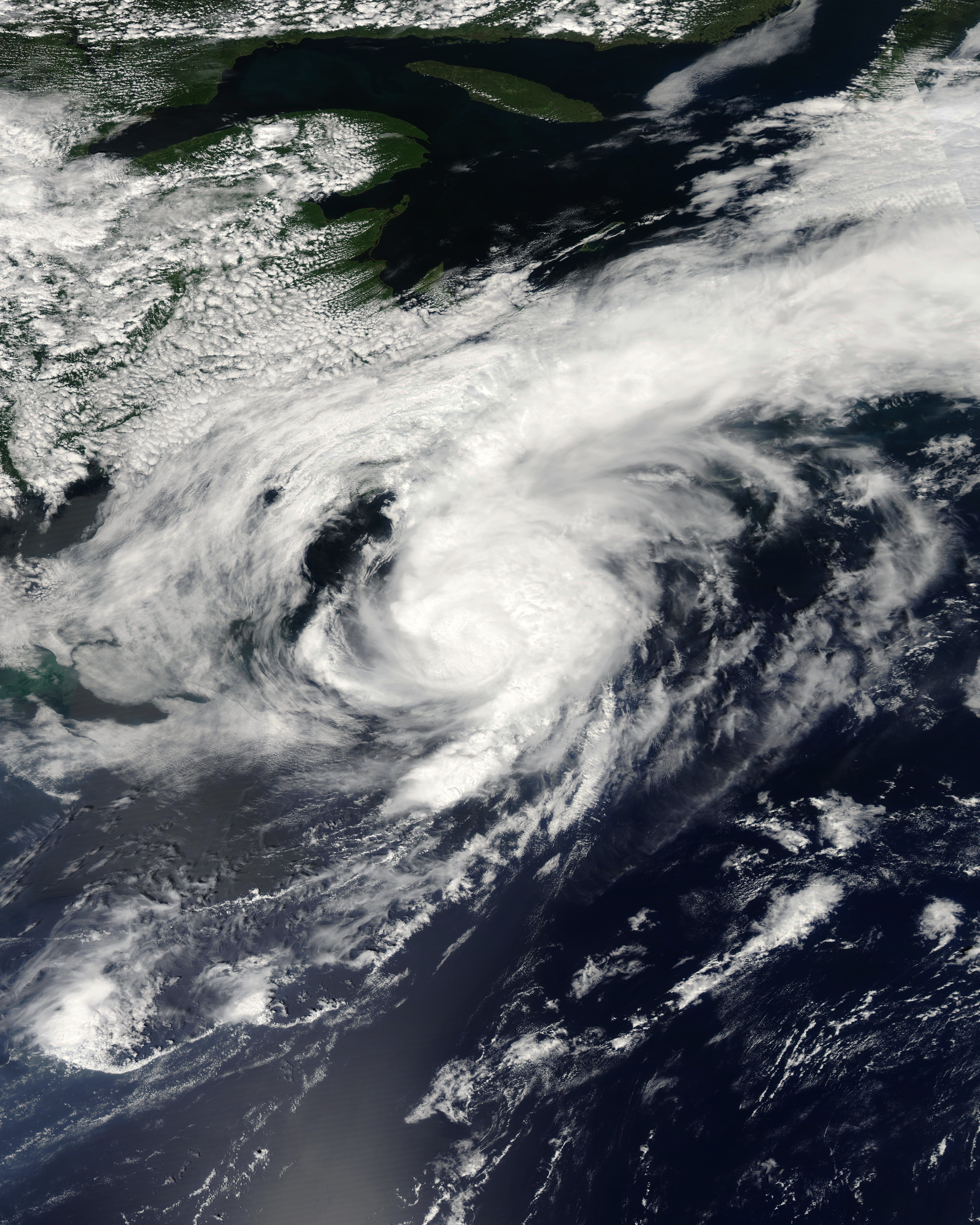 Tropical Storm Cristobal shortly after peak intensity accelerating northeastward on July 22, 2008